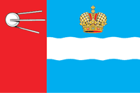 Kaluga, flag